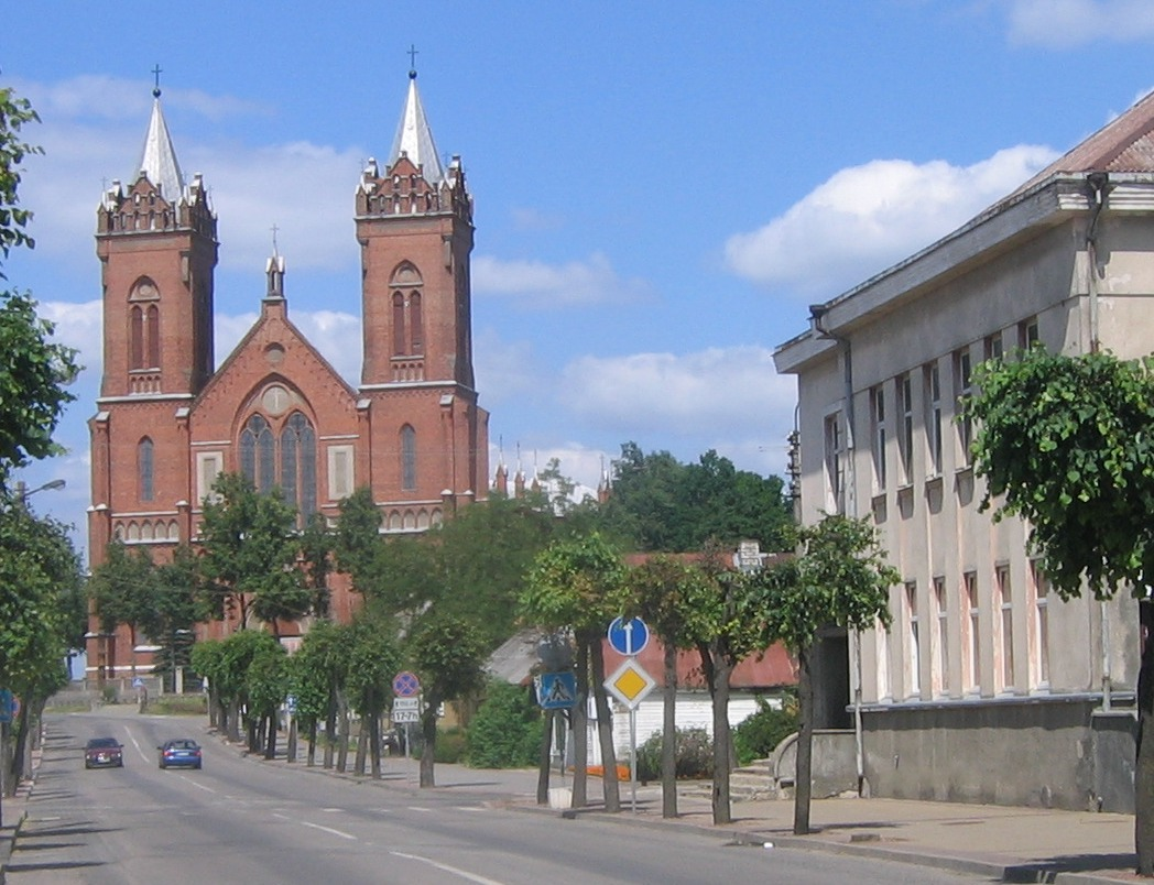 The church of Kupiškis in Lithuania